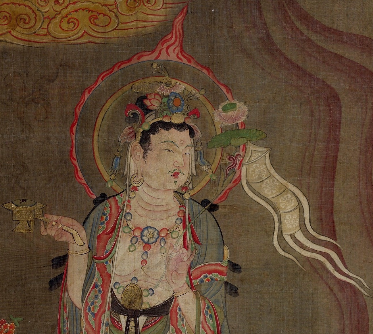 Bodhisattva Leading the Way, color on silk, 80.5 x 53.8 cm. The image was discovered at Dun Huang in the "1000 Buddha cave" (cave 17). The bodhisattva is leading a woman to the Pure Land on the golden cloud in the upper left corner. His right hand contains an incense burner. His left hand contains a lotus flower. Located at the British Museum Department of Asia.